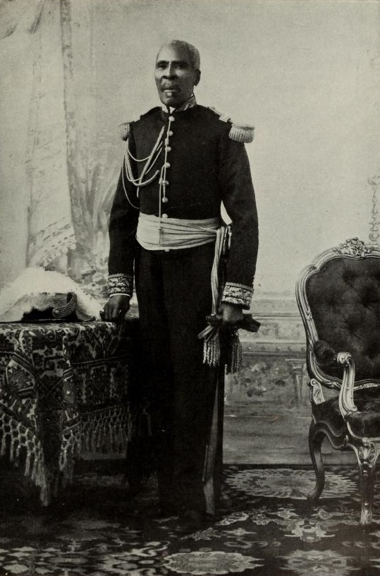 Picture of Pierre Nord Alexis